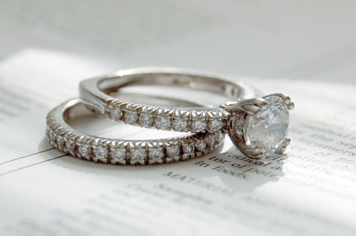 I don't think I ever actually took a photo of them together since getting married last fall. Here they are. It's a matched set from Diana Classic in platinum.